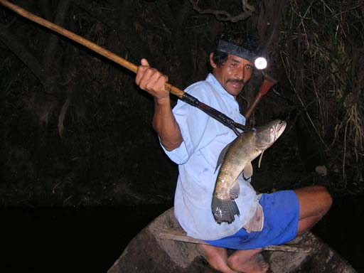 Night spear fishing , Amazon basin ,Peru. taken by:Yuval gelber